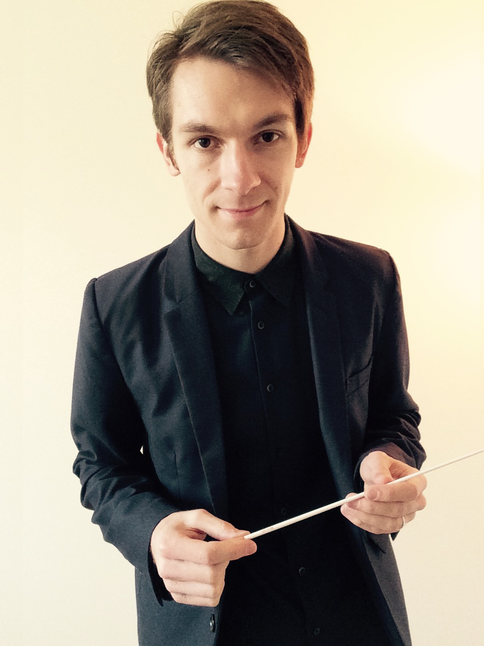 Luke Flynn, Composer